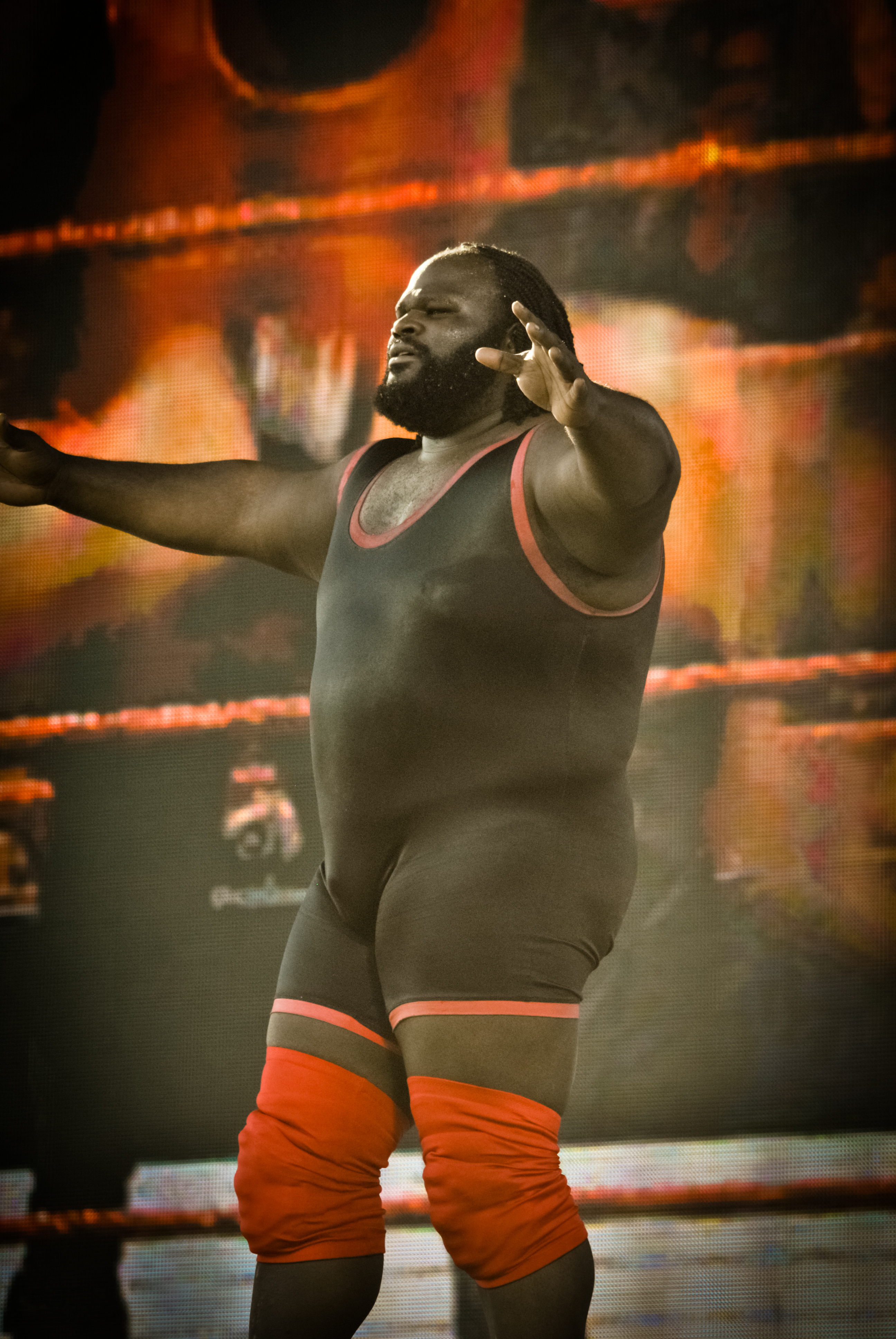 Mark Henry at WWE's Tribute to the Troops event on December 11, 2010 in Fort Hood, Texas.